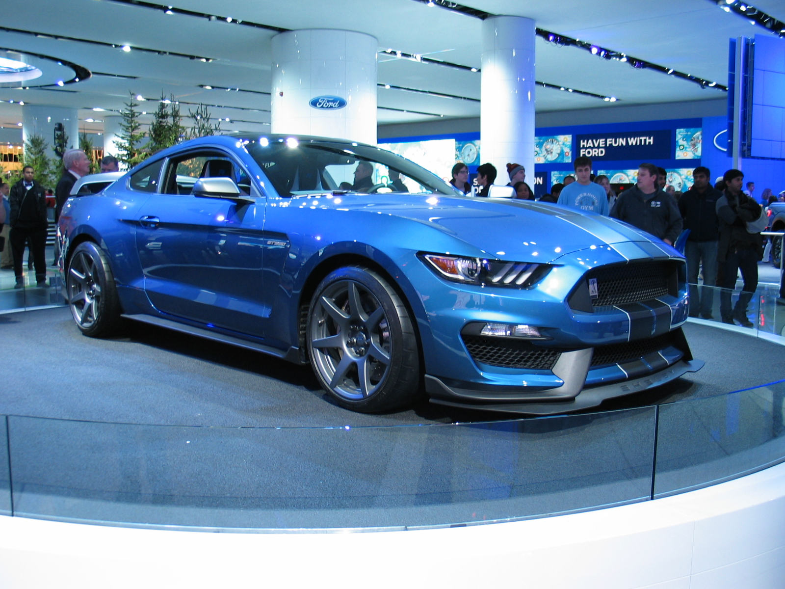 2016 Shelby GT350R front